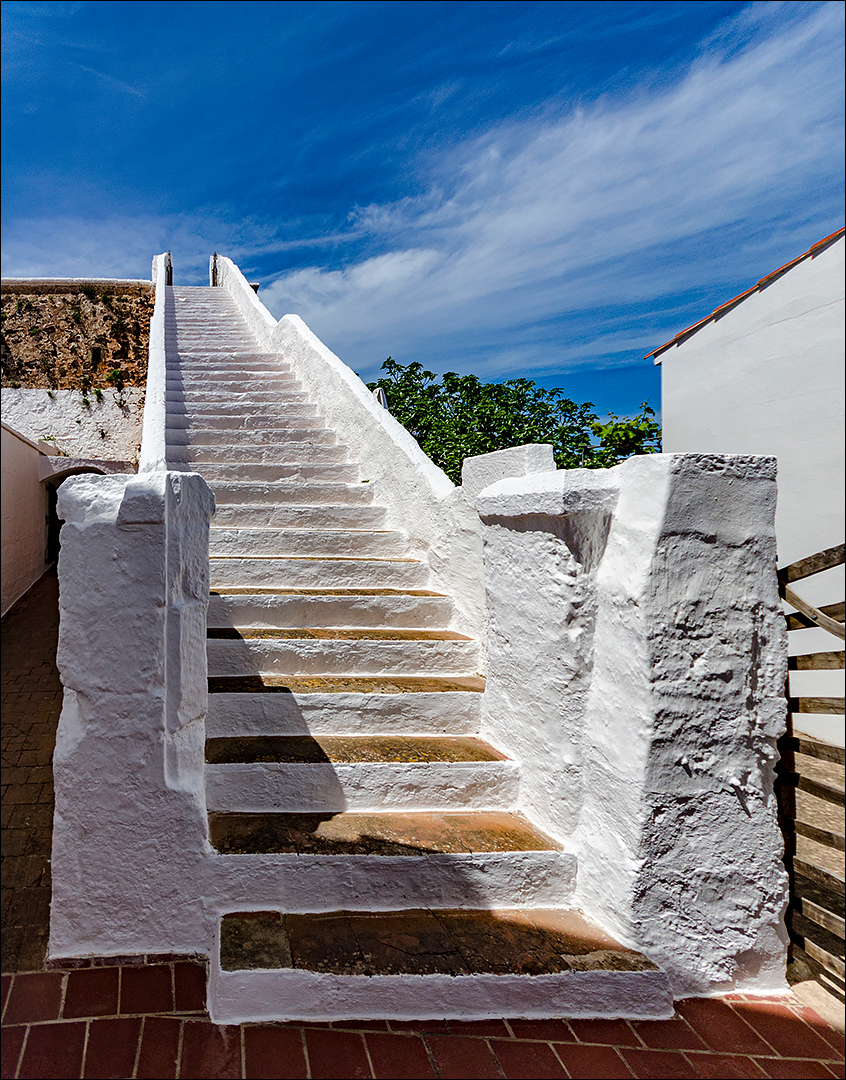 See the description of Es Mercadal—Aljub 001.jpg (File:Es_Mercadal—Aljub_001.jpg).